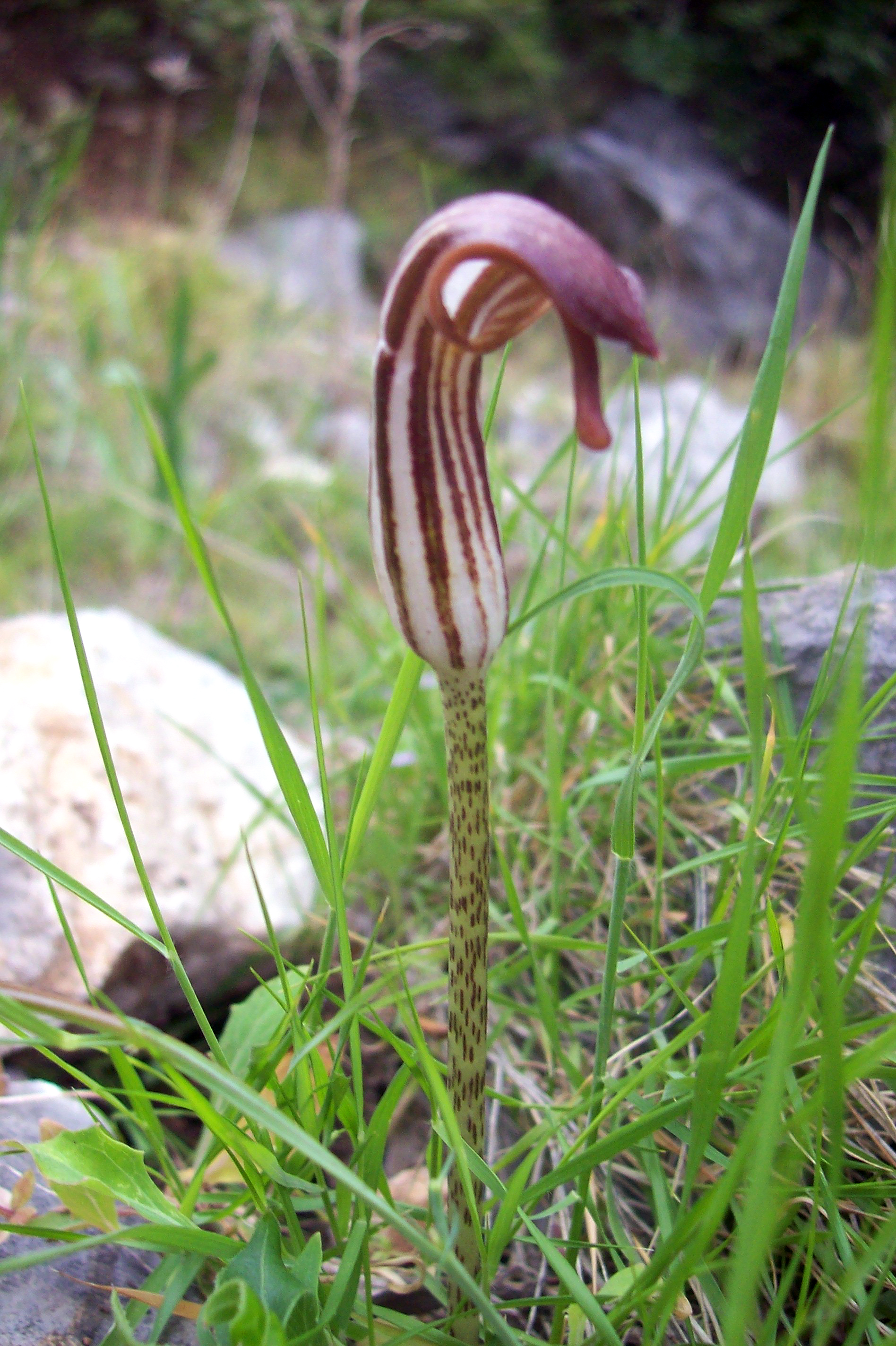 Arisarum vulgare